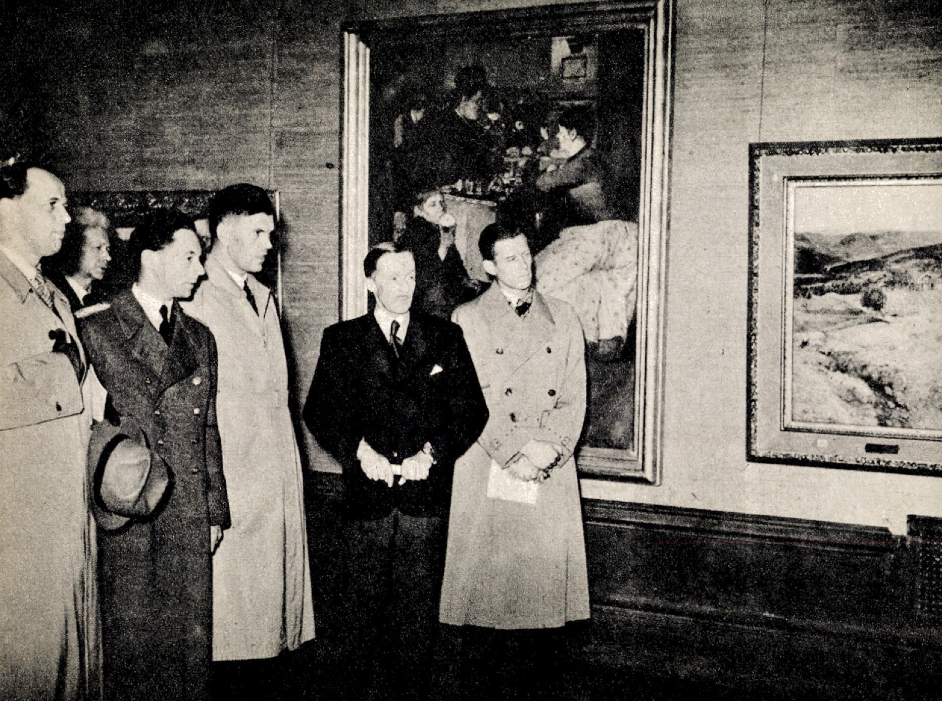 Photo from "Liv i kamp for Norge" ("Marie og Gulbrand Lunde Et liv i kamp for Norge"), a memorial book about Norwegian couple Marie (1907–1942) and Gulbrand Lunde (politician, 1901–1942), published by "Rikspropagandaledelsen" (propaganda department of Nasjonal Samling, Norwegian fascist party 1933–1945) and "Blix forlag" in Oslo, Norway 1942. Cropped JPG from PDF (a low resolution digitized version) of the book downloaded from National Library of Norway's site NO-OsNB (999824600824702202)